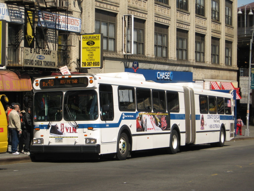 NYC Transit New Flyer D60HF #5400 works the Bx40 line at Burnside and Jerome Avenues in Bronx, NY.